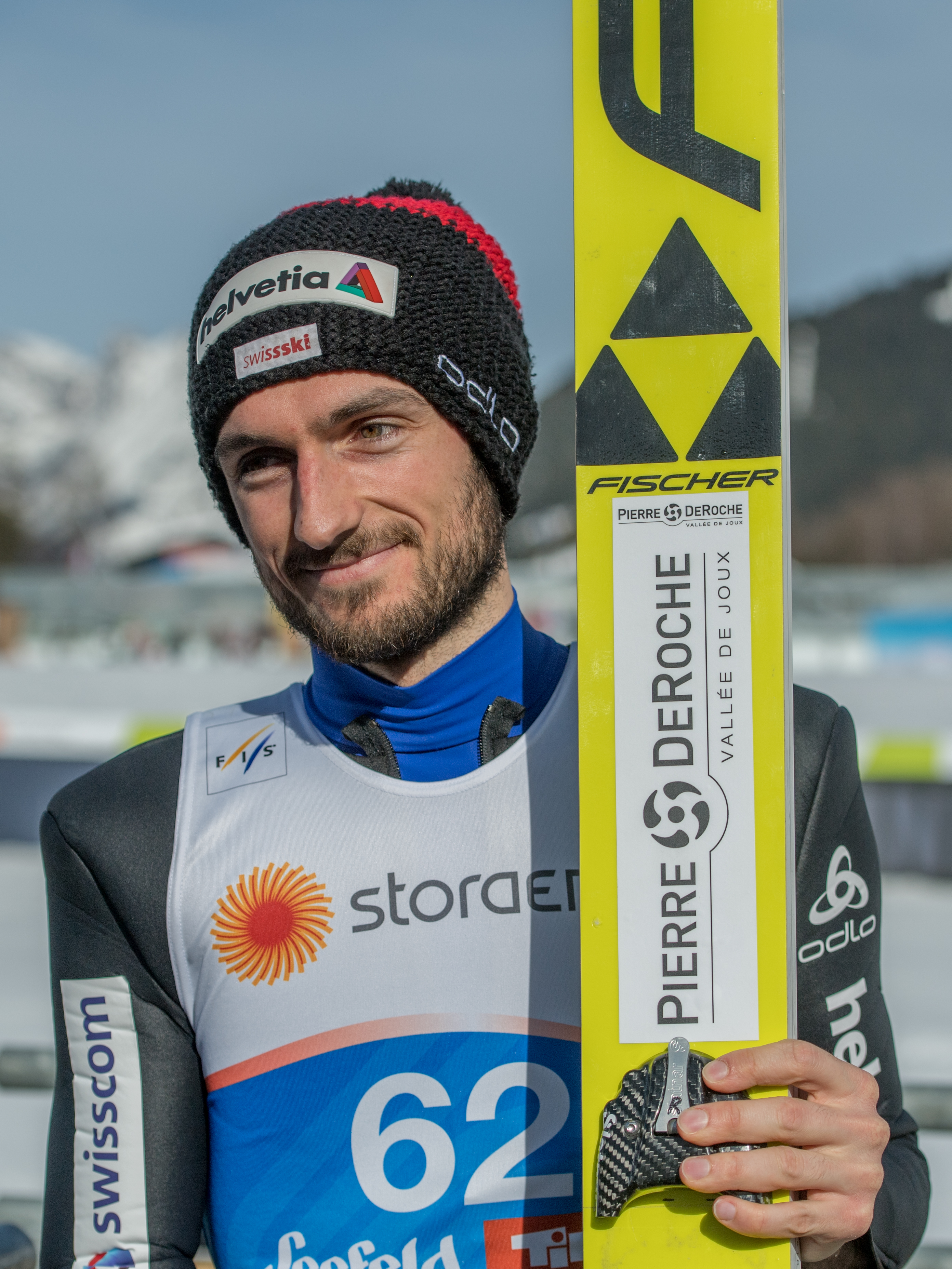 Seefeld, February 26, 2019: FIS Nordic World Ski Championships, Ski Jumping Training Men.